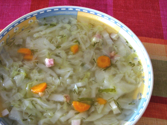 kapuśniak